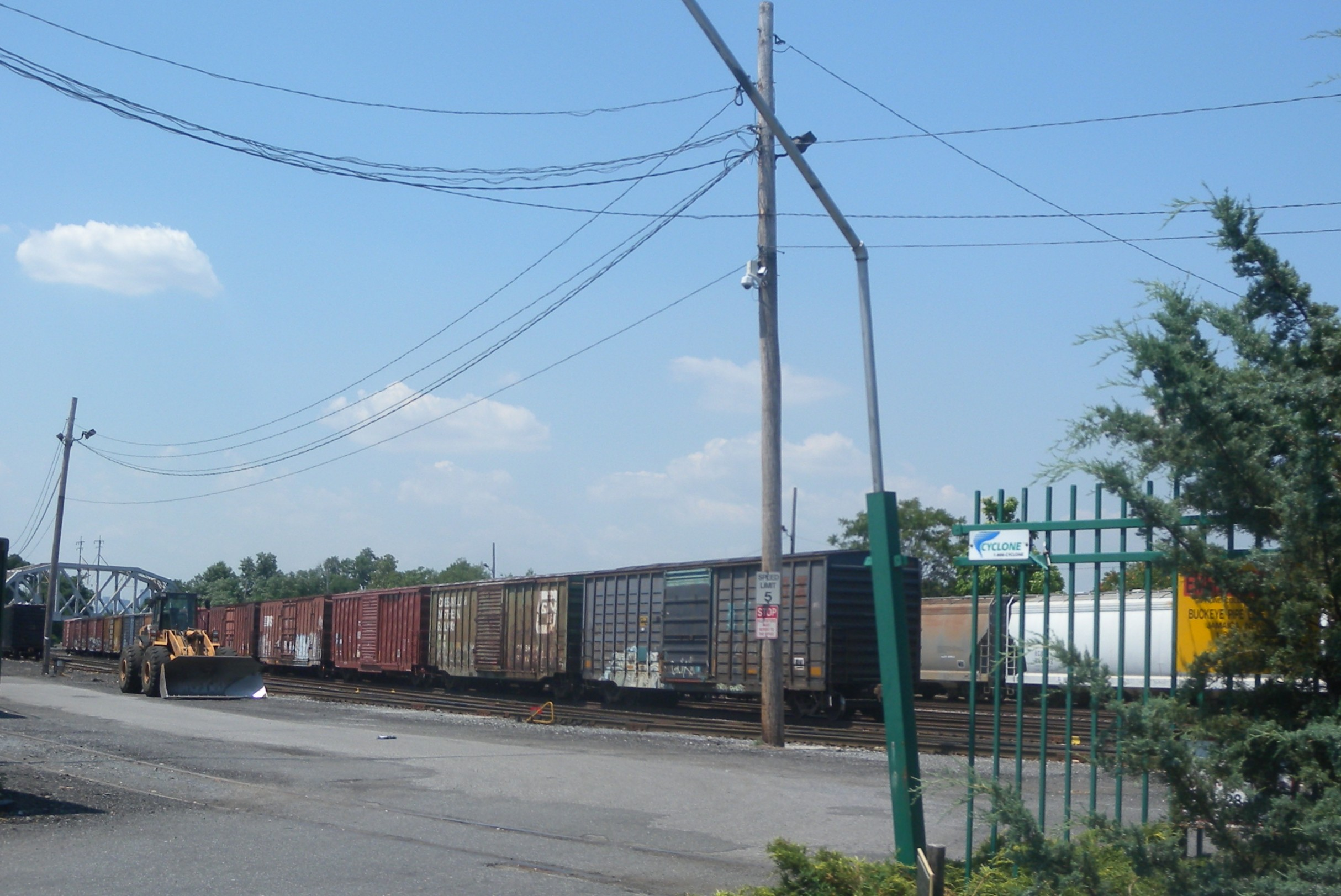 Looking north while pedaling past gate of Fresh Pond Terminal on a mostly sunny afternoon.